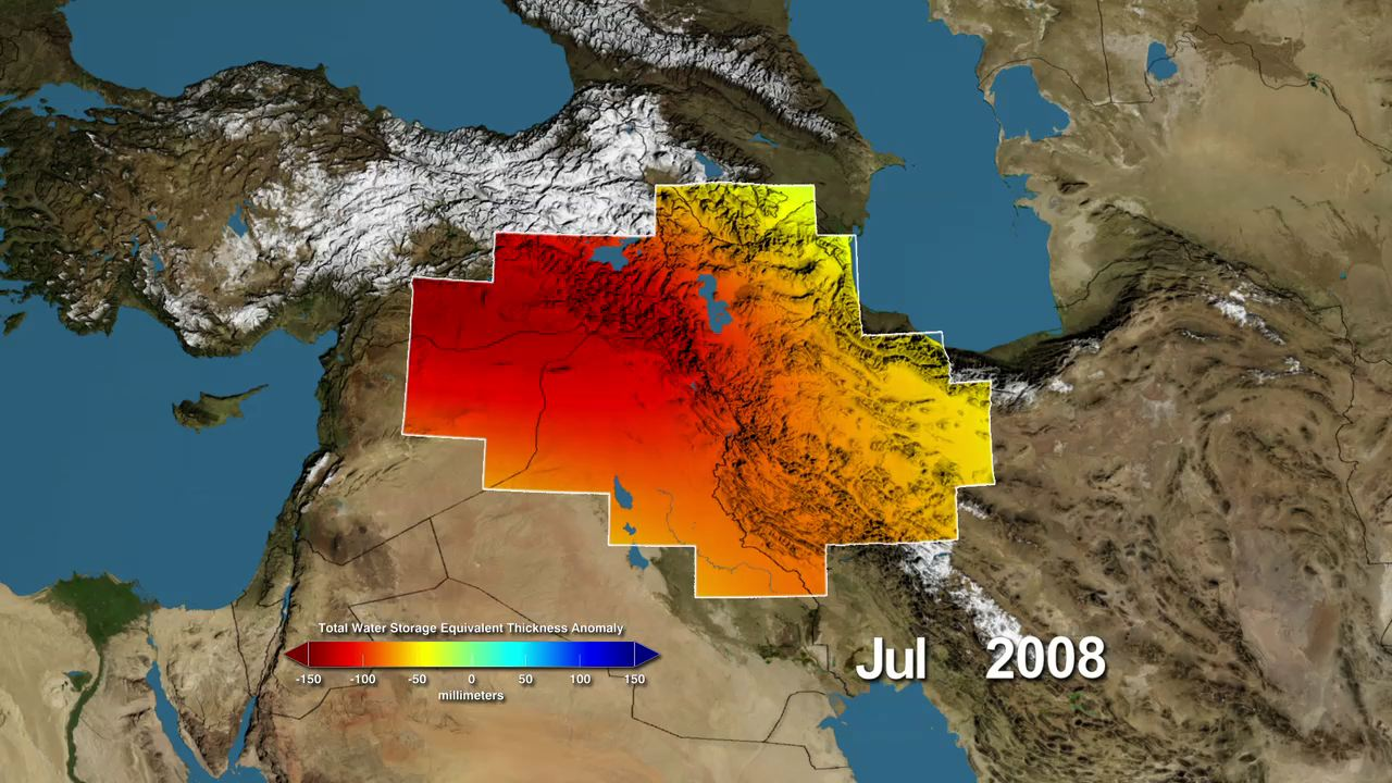 Variations in total water storage from normal, in millimeters, in the Tigris and Euphrates river basins, as measured by NASA's Gravity Recovery and Climate Experiment (GRACE) satellites, from January 2003 through December 2009. Reds represent drier conditions, while blues represent wetter conditions. The majority of the water lost was due to reductions in groundwater caused by human activities. By periodically measuring gravity regionally, GRACE tells scientists how much water storage changes over time.